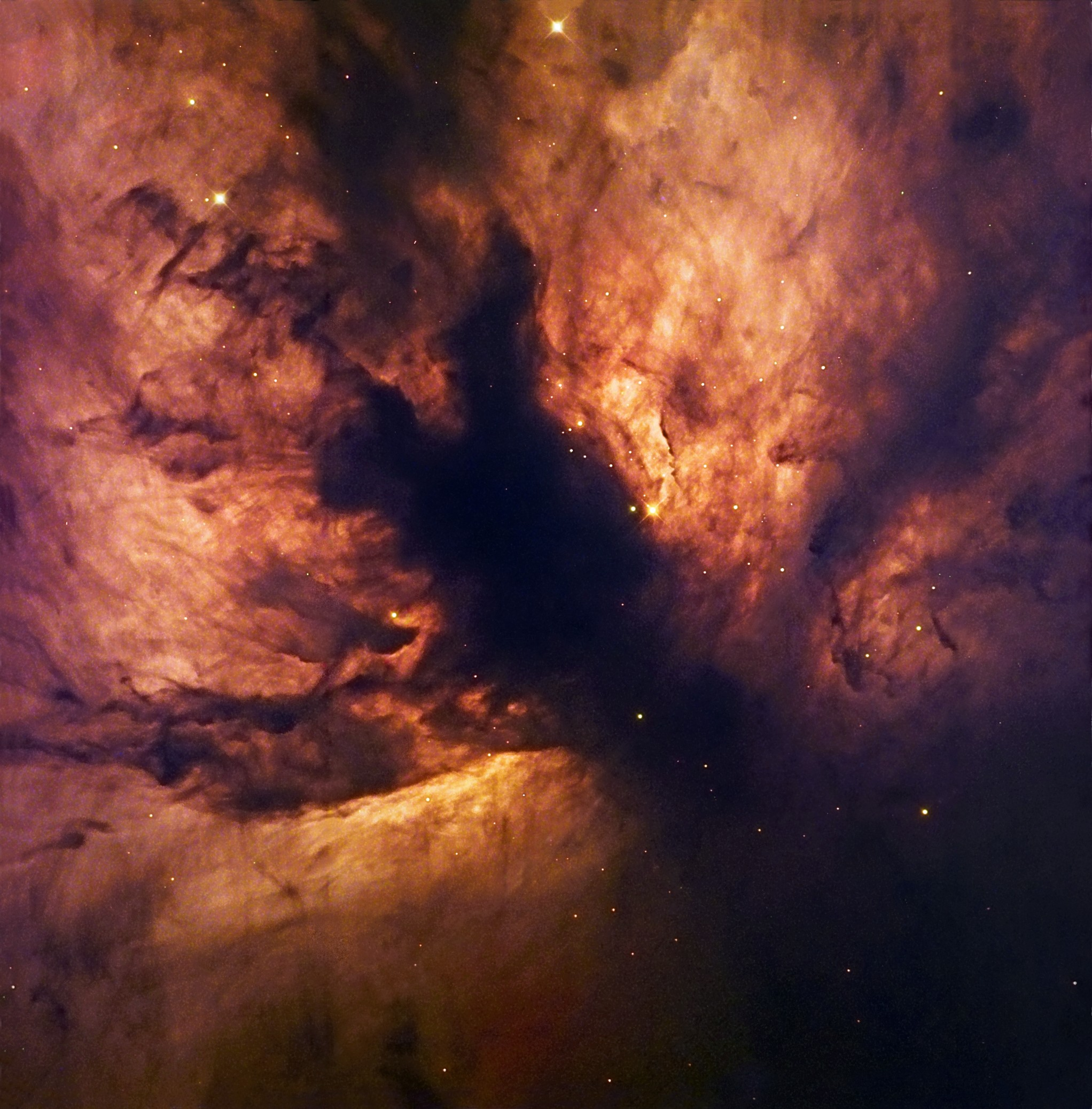 Sparkling at the edge of a giant cloud of gas and dust, the Flame Nebula, also referred to as NGC 2024, is in fact the hideout of a cluster of young, blue, massive stars, whose light sets the gas ablaze. Located 1300 light-years away towards the constellation of Orion, the nebula owes its typical colour to the glow of hydrogen atoms, heated by the stars. The latter are obscured by a dark, forked dusty structure in the centre of the image and are only revealed by infra-red observations. Colours & filters Band Wavelength Telescope Optical B 433 nm Danish 1.54-metre telescope DFOSC Optical V 544 nm Danish 1.54-metre telescope DFOSC Optical R 648 nm Danish 1.54-metre telescope DFOSC .